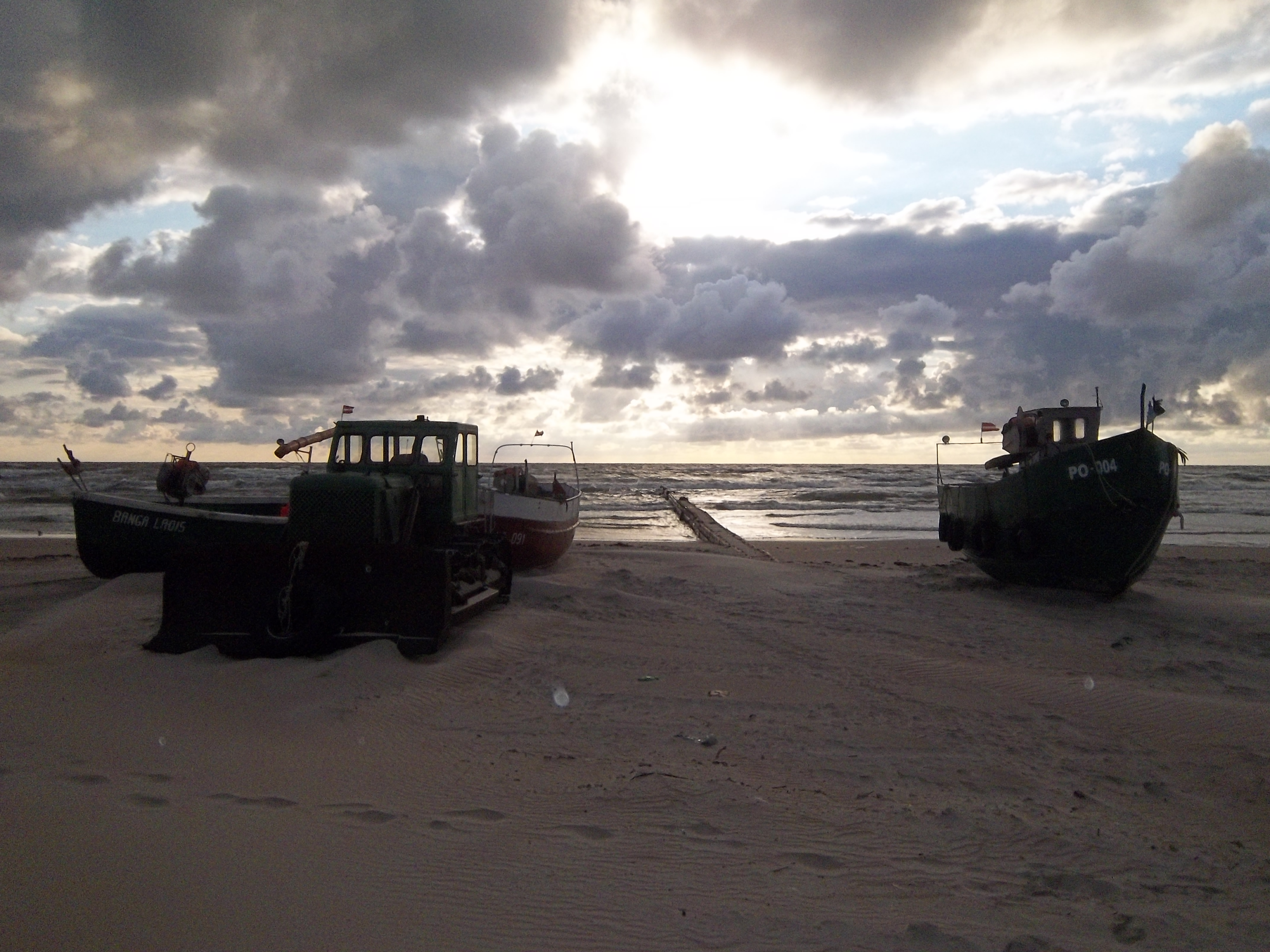 Latvian Sunset, Jūrmakienų, Rucava